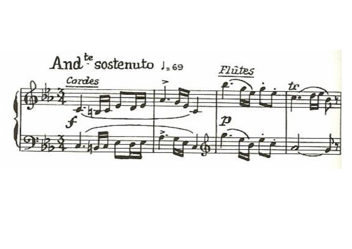 Score fragment from Giuseppe Verdi's 1849 opera Luisa Miller